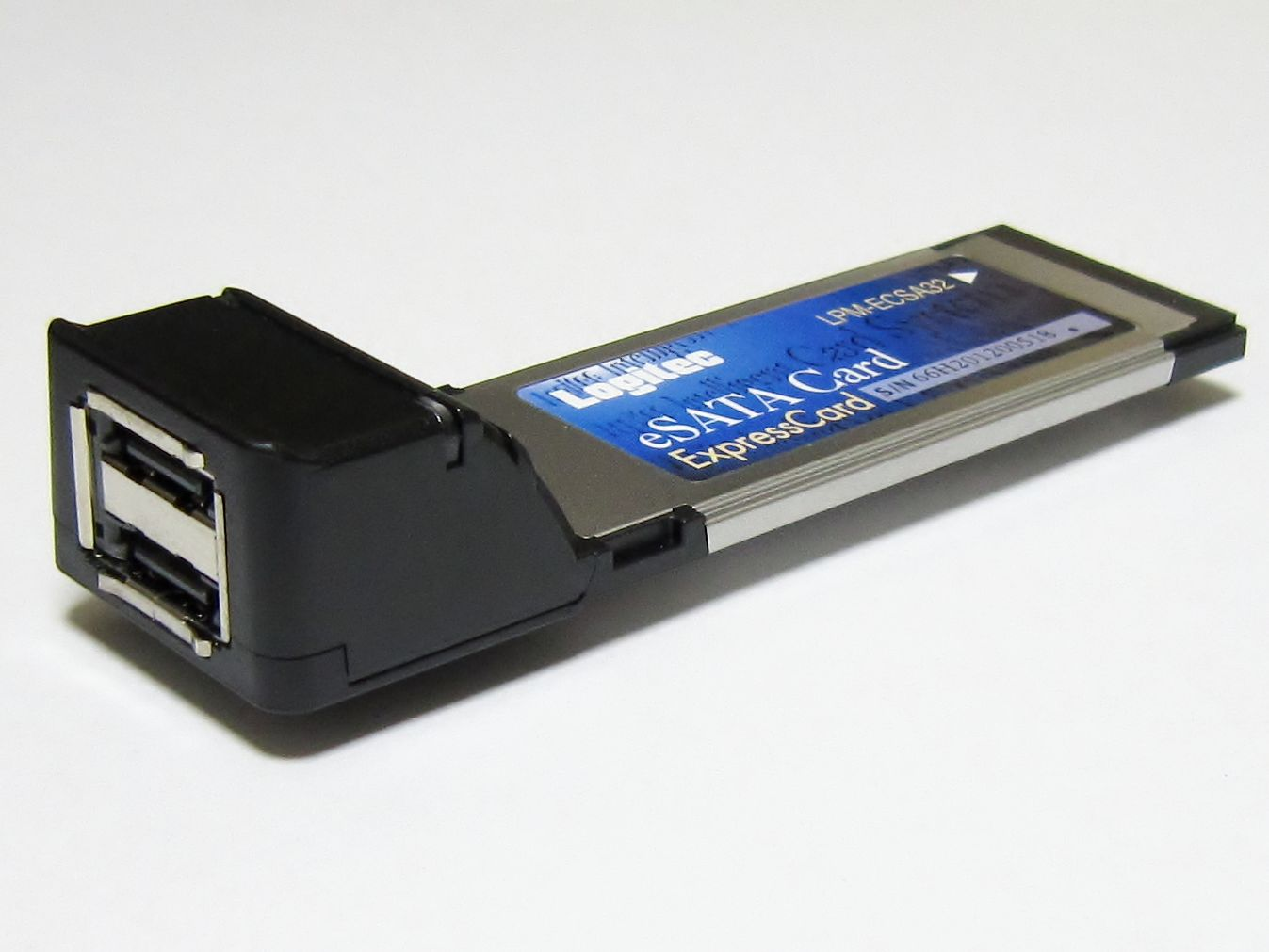 Logitec LPM-ECSA32 is an eSATA (3 Gbps) interface card for ExpressCard/34.